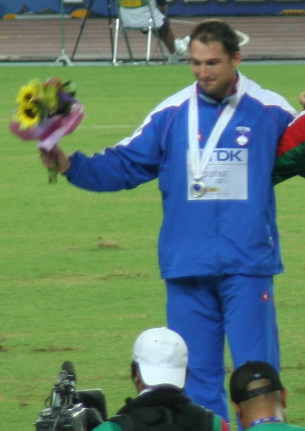 World Athletics Championships 2007 in Osaka - Primož Kozmus at the Victory Ceremony for Hammer Throw